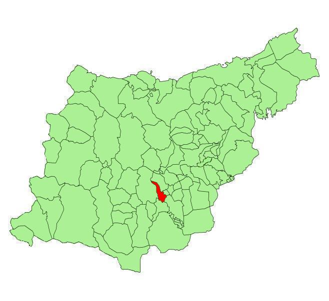 Oridizia municipality in the province of Guipuzcoa